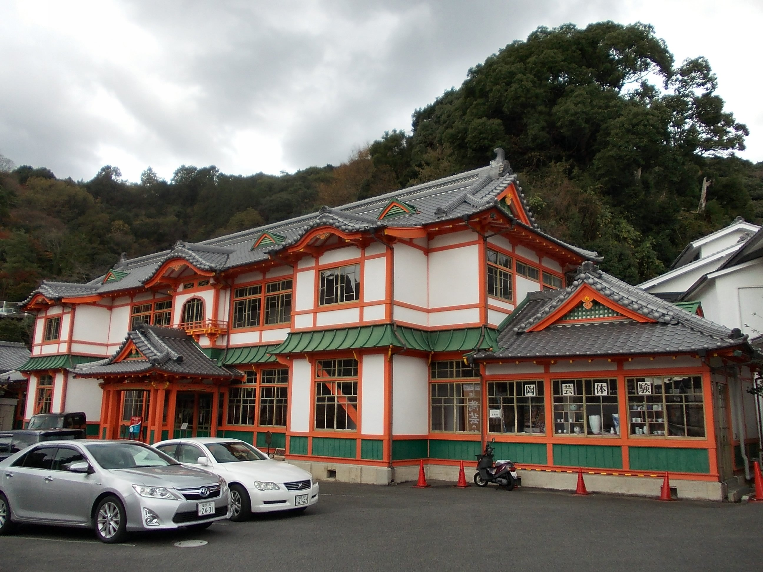 Takeo Onsen Shinkan Museum in Takeo, Saga, Japan